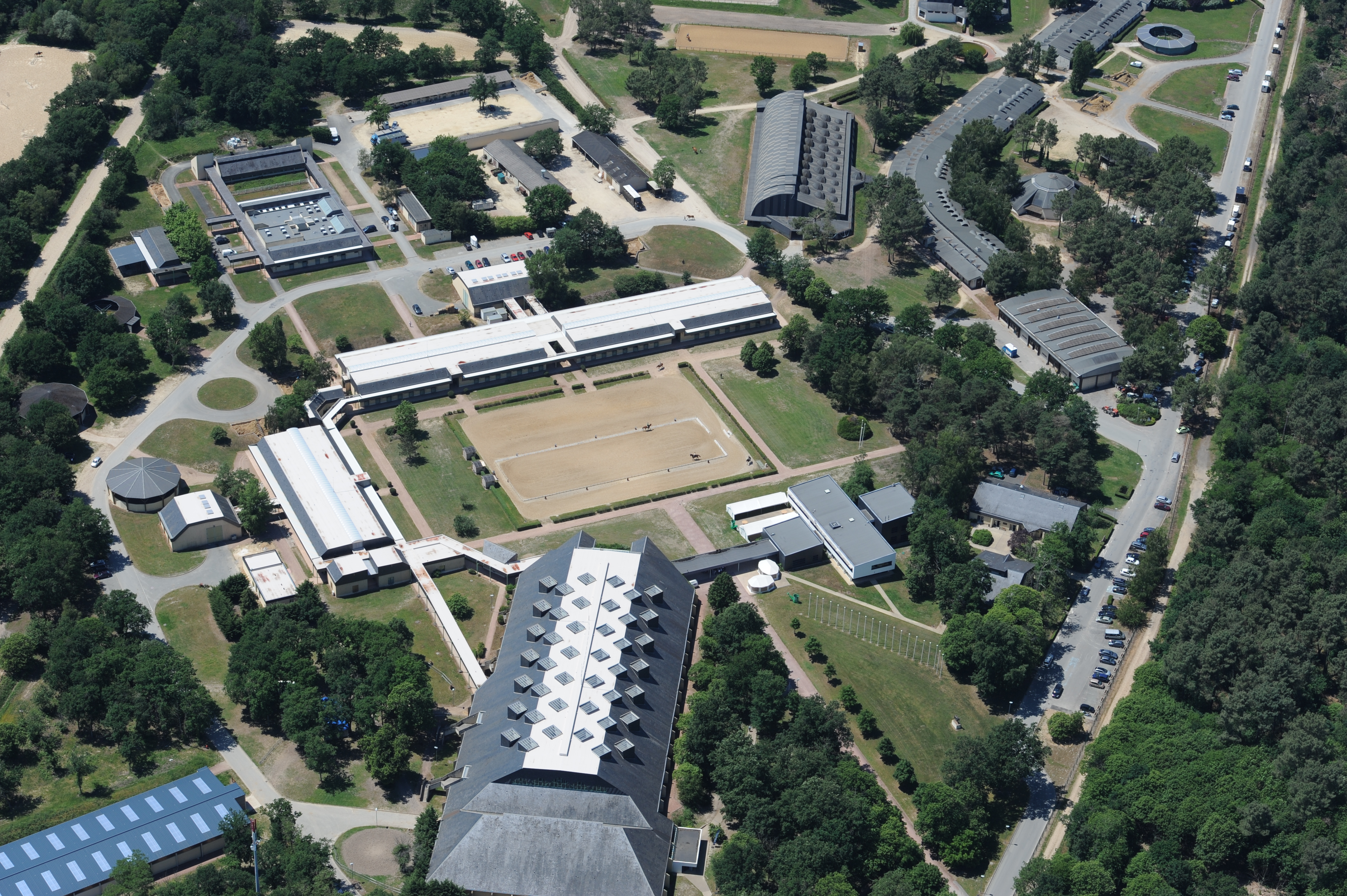 This photograph was taken by a Wikipedian, or provided by the Cadre noir, during a special day in May 2012 English | français | +/−